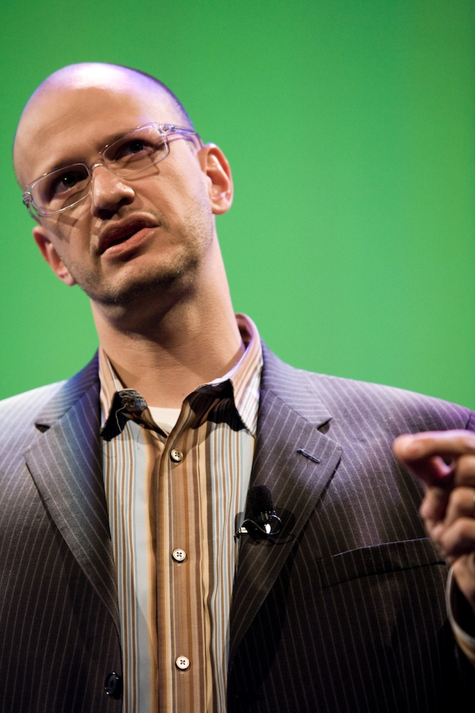 Adeo Ressi in 2008, photo courtesy of The Next Web from Flickr